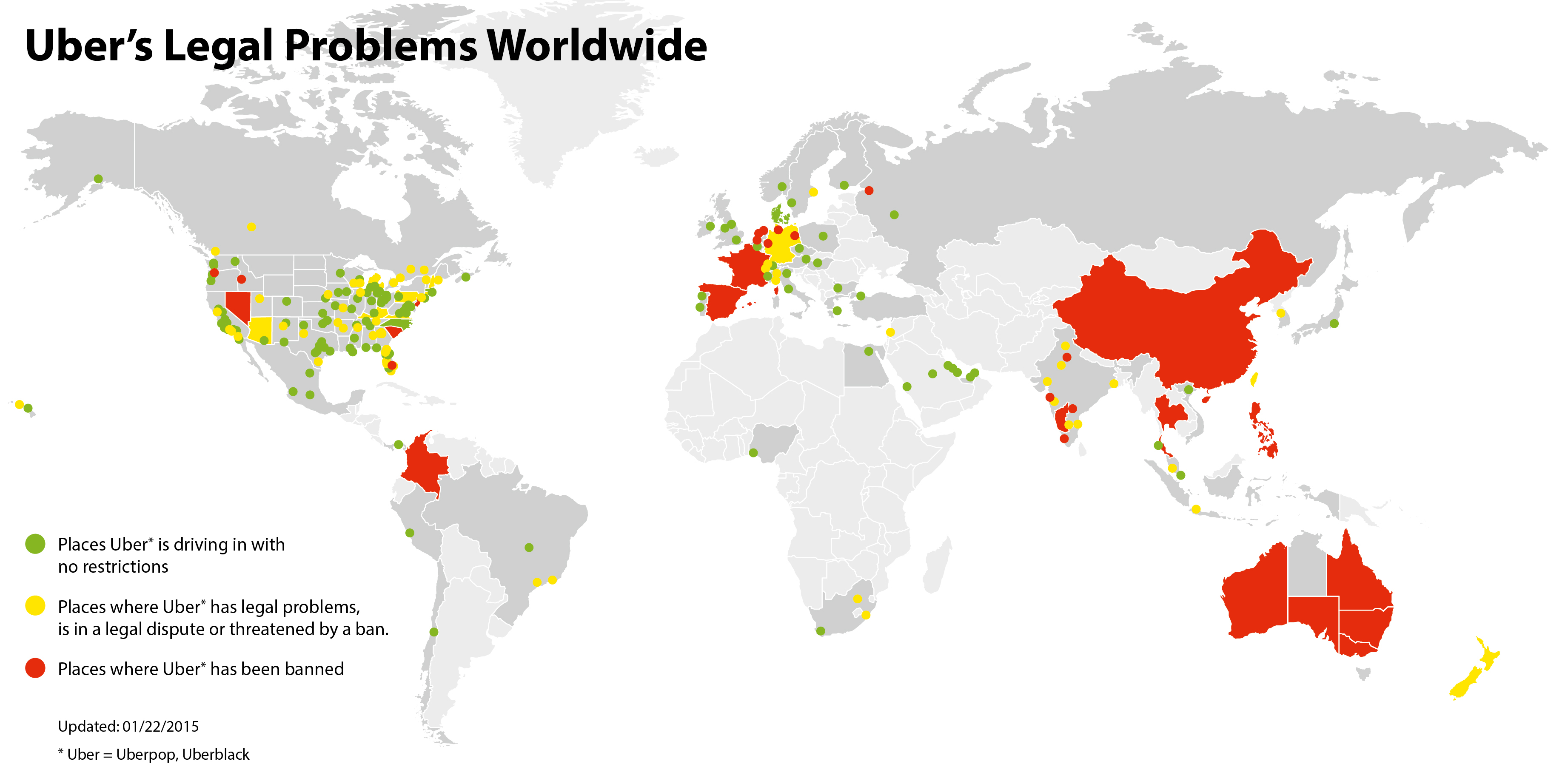 UberPop's and UberBlack's legal issues around the world. For source information, see here